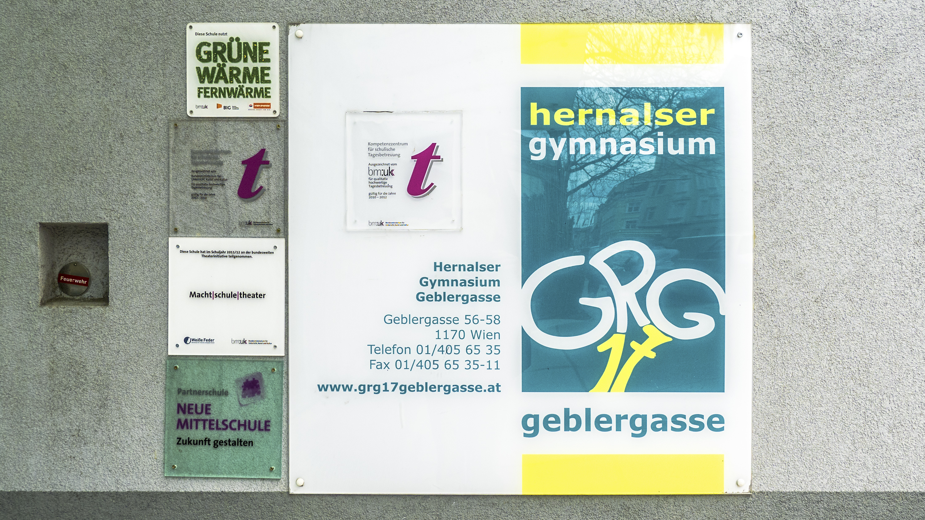 High school Hernalser Gymnasium Geblergasse in Vienna 17